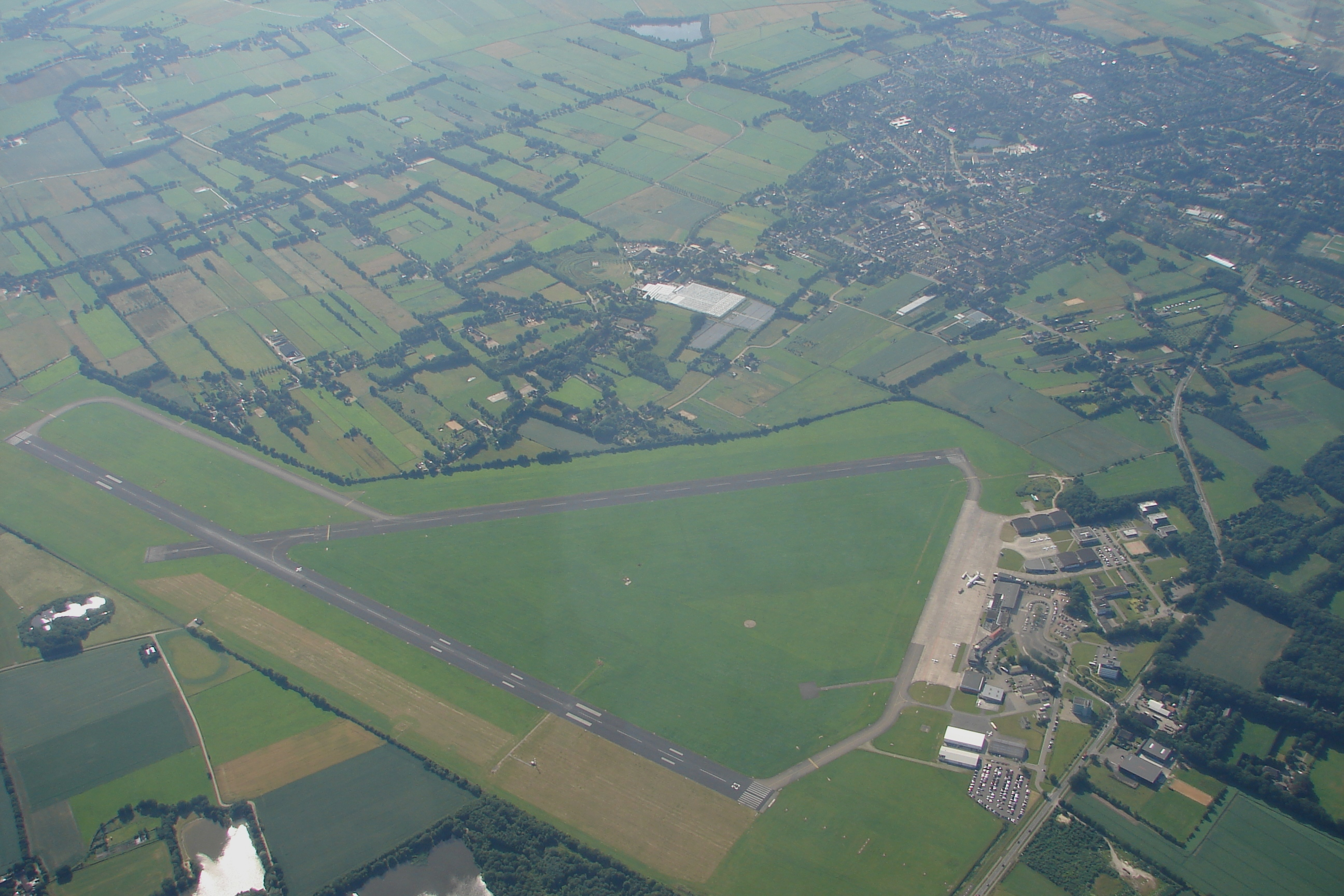 Overview of Groningen Airport Eelde and the town of Eelde (picture taken from the south west)